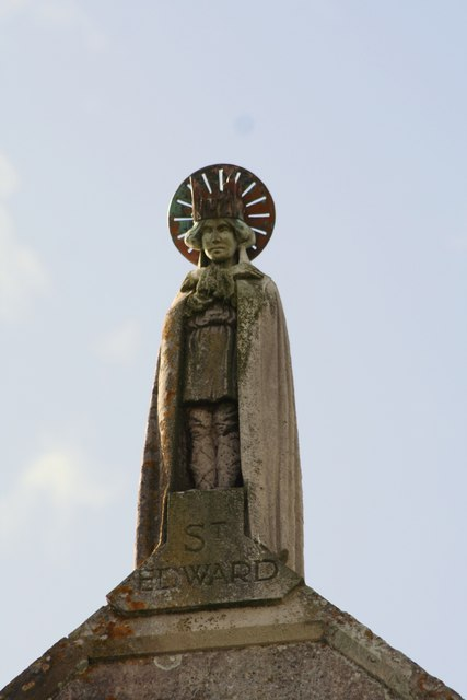 Statue of St Edward on the chancel gable of St Edward the Martyr parish church, Corfe Castle, Dorset